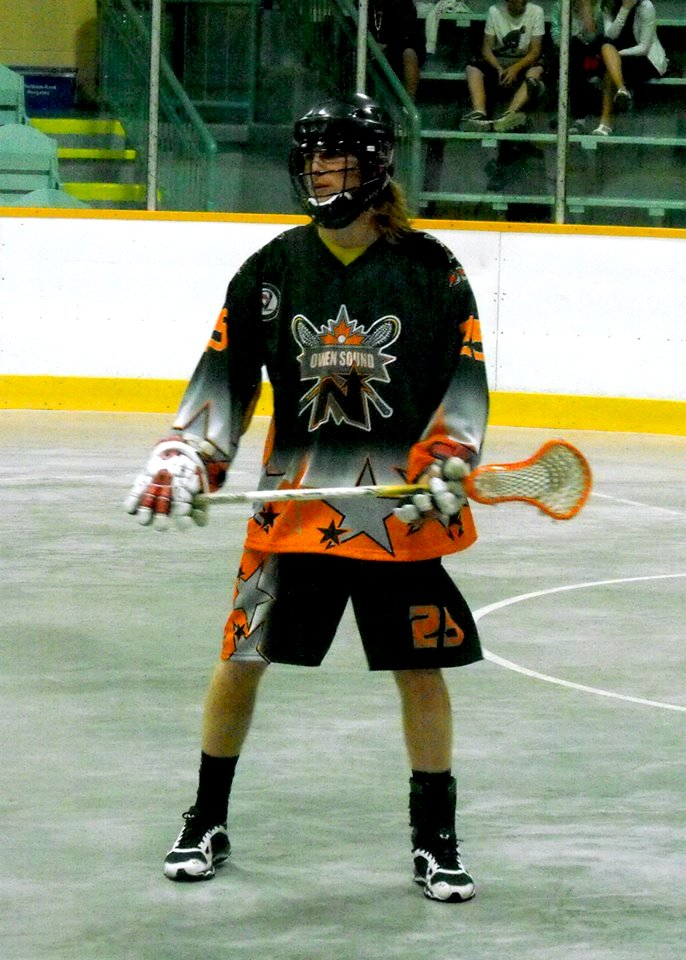 These images of Ontario Junior B Lacrosse Action action during the 2014 season are taken by Devan Mighton.